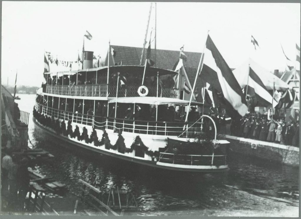 The Zaandam I opening the Wilhelmina locks in 1903